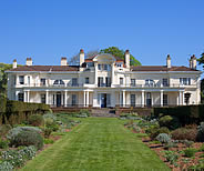 a frontward view of the school